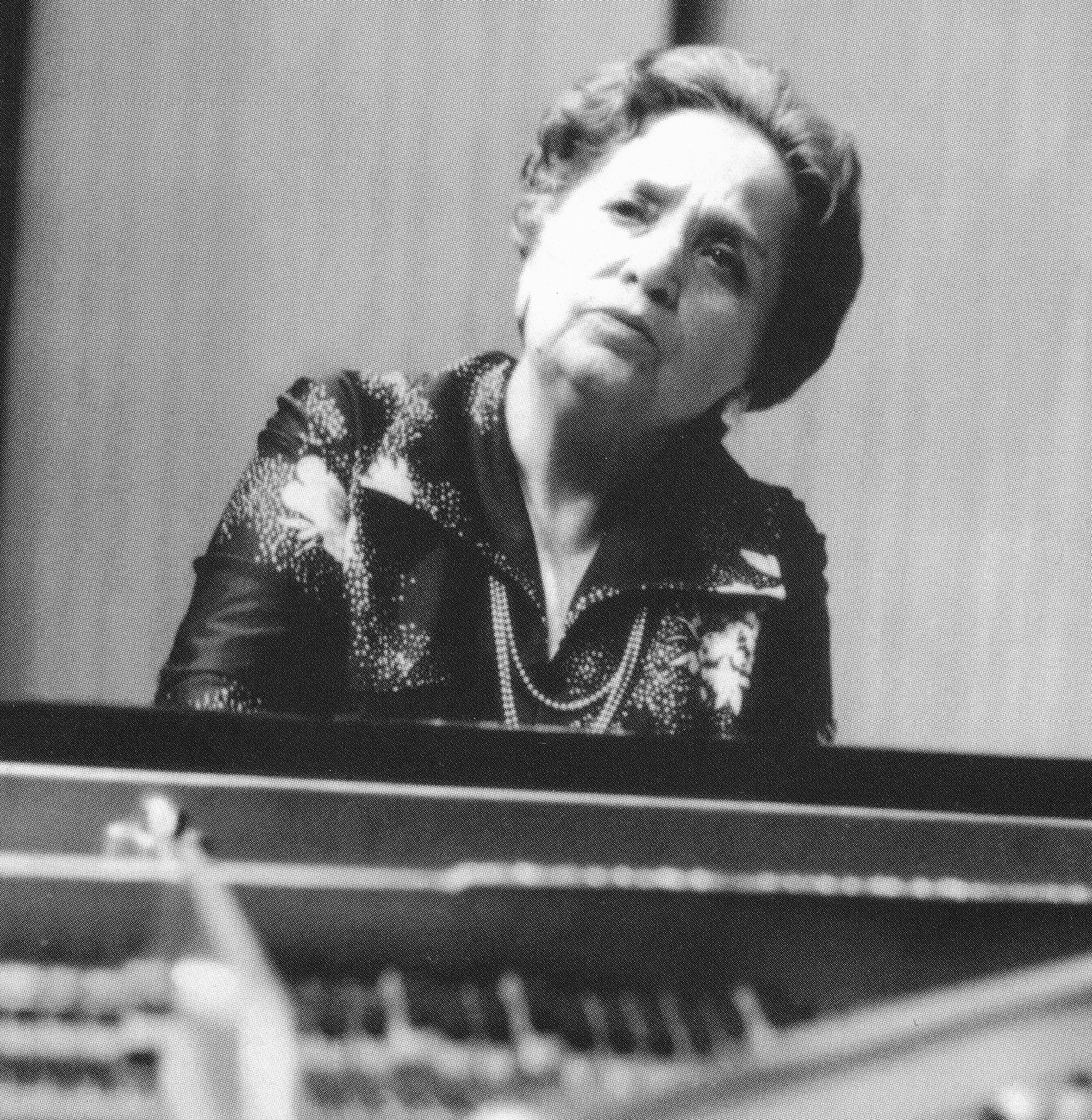 Prof Liuba Entcheva portrait